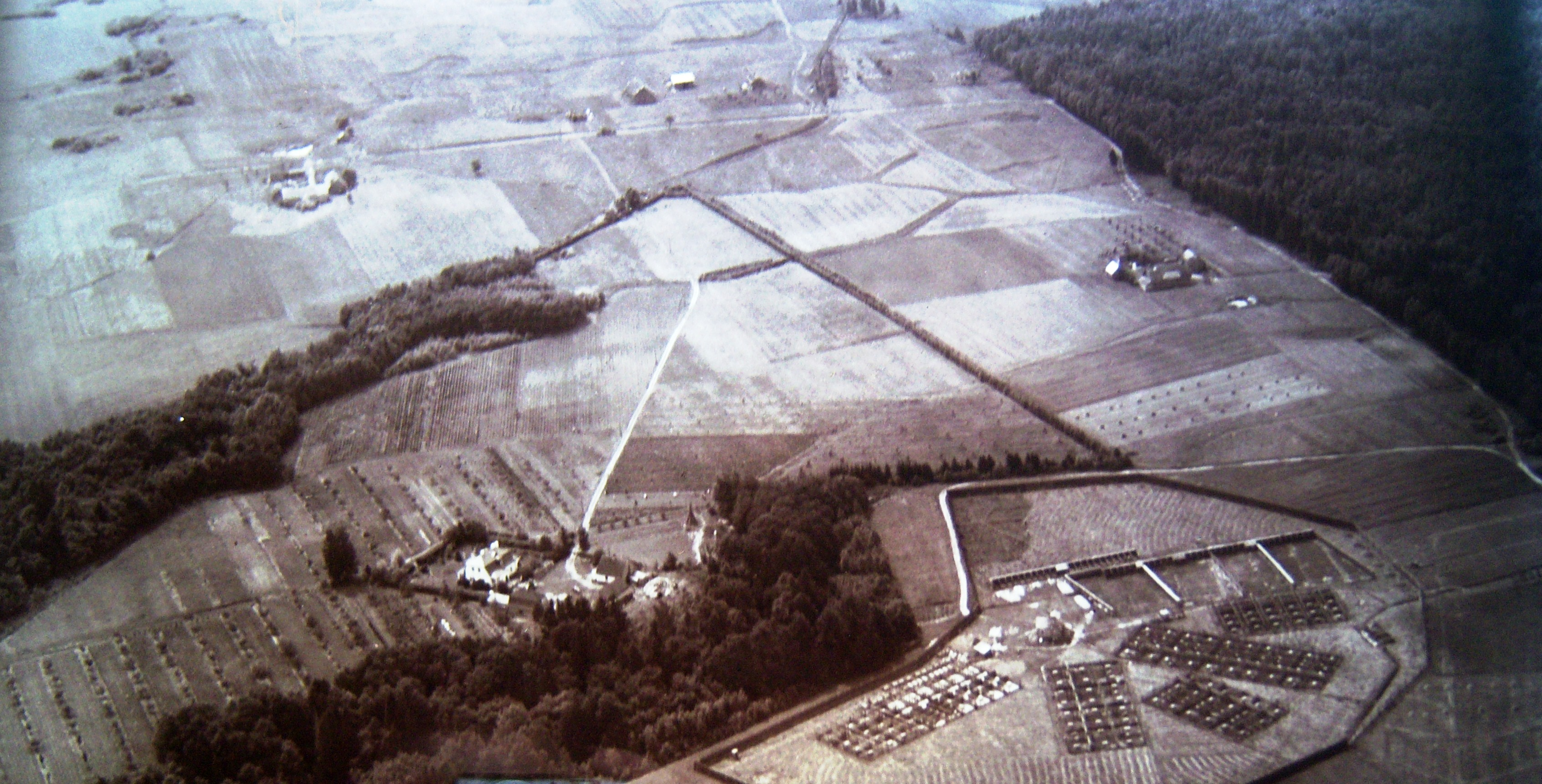 Aerial view (about 1935) - Obelynė and T. Ivanauskas' house, Akademija, Kaunas district, Lithuania